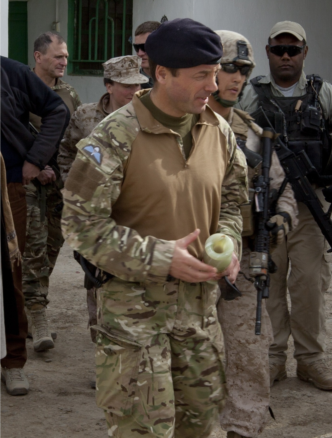 Major General Stuart Richard Skeates CBE, British Army officer